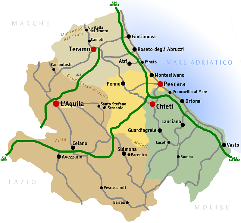 The Italian region Abruzzo Map created by user:Idéfix